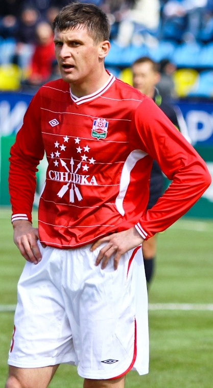 Yevgeni Ovsiyenko as a player of FC Spartak-Nalchik in 2012 year